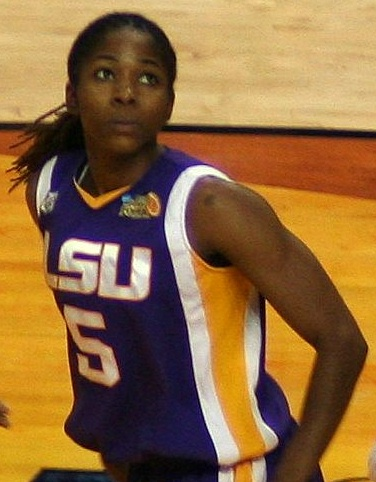 Former LSU women's basketball player Erica White in the 2008 NCAA Final Four.